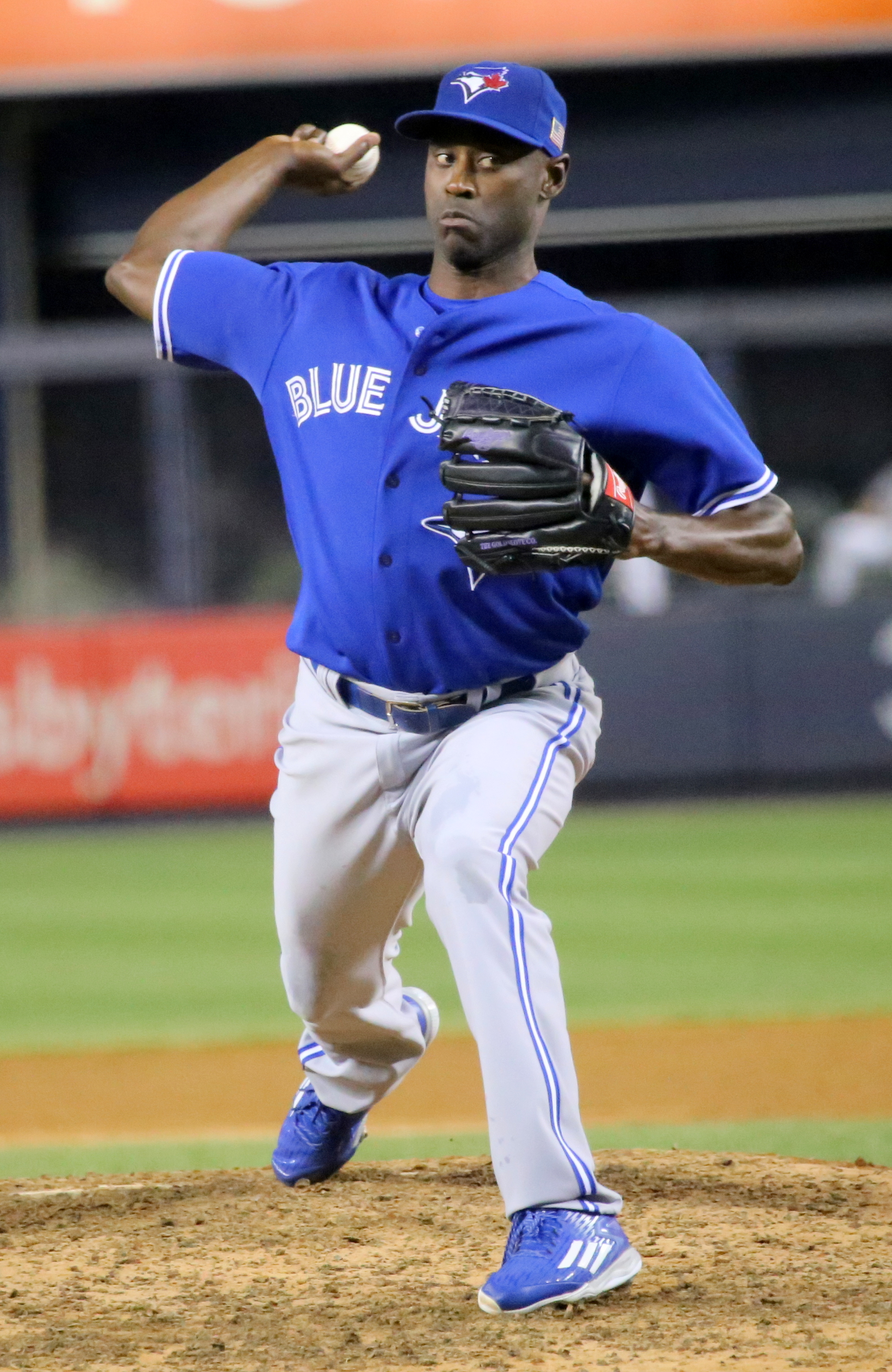 LaTroy Hawkins on September 11, 2015